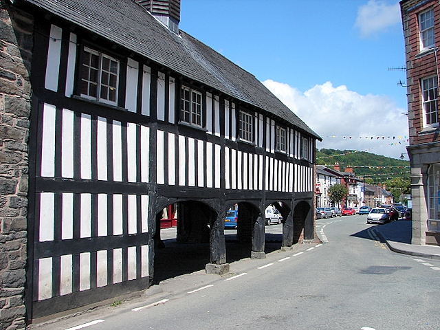 Llanidloes Market Hall. A good description can be found here 513404.